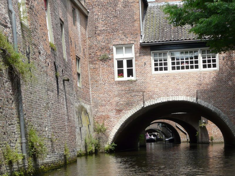 Binnendieze (Inner Dieze) canal, 's-Hertogenbosch, North Brabant, Netherlands